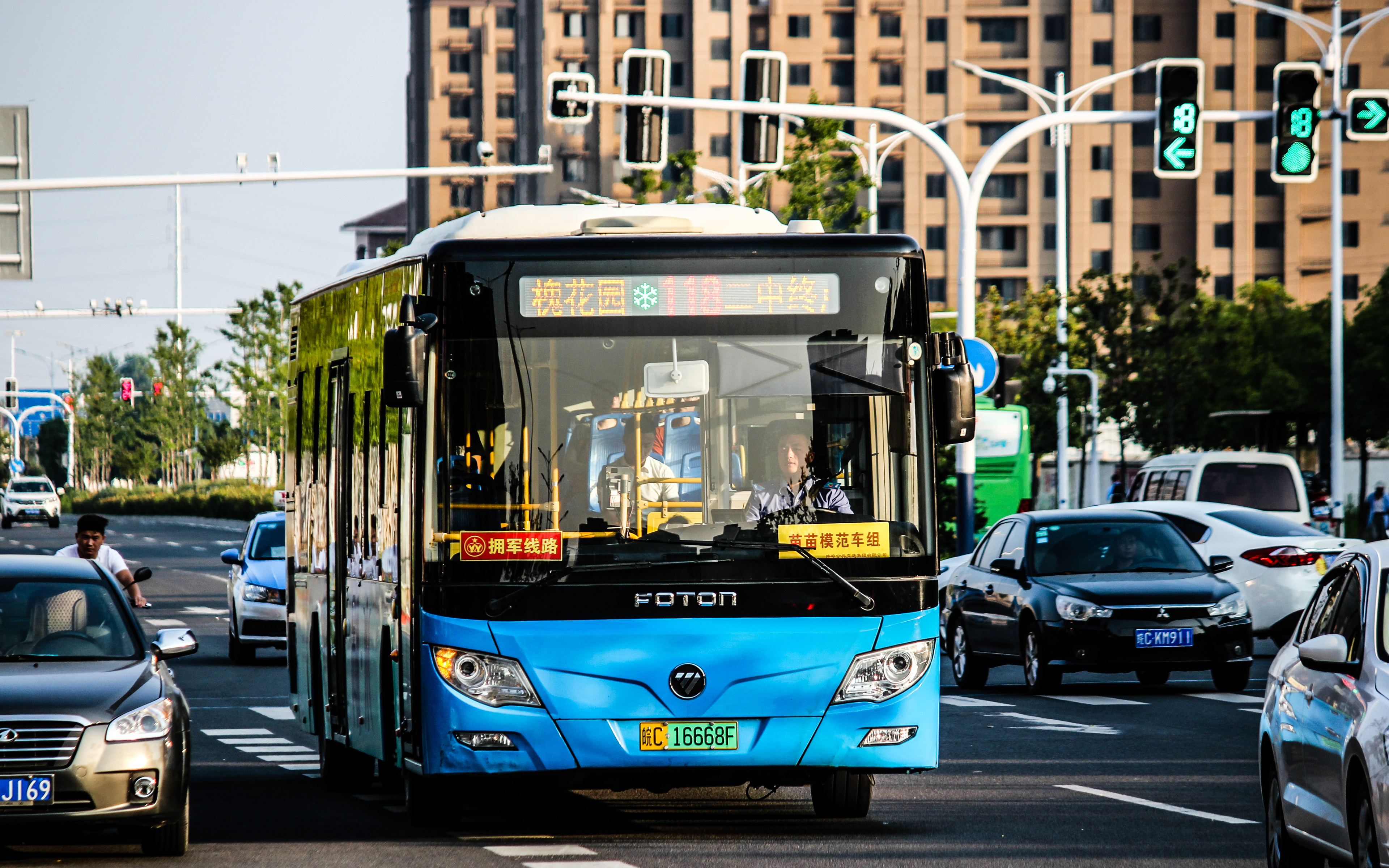 Bengbu Bus No.118 with New Energy Vehicle License Plate